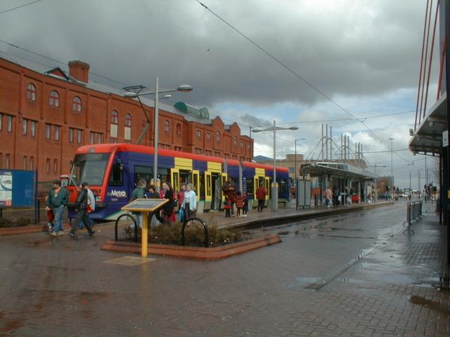 The Wolverhampton terminus of the Midland Metro.